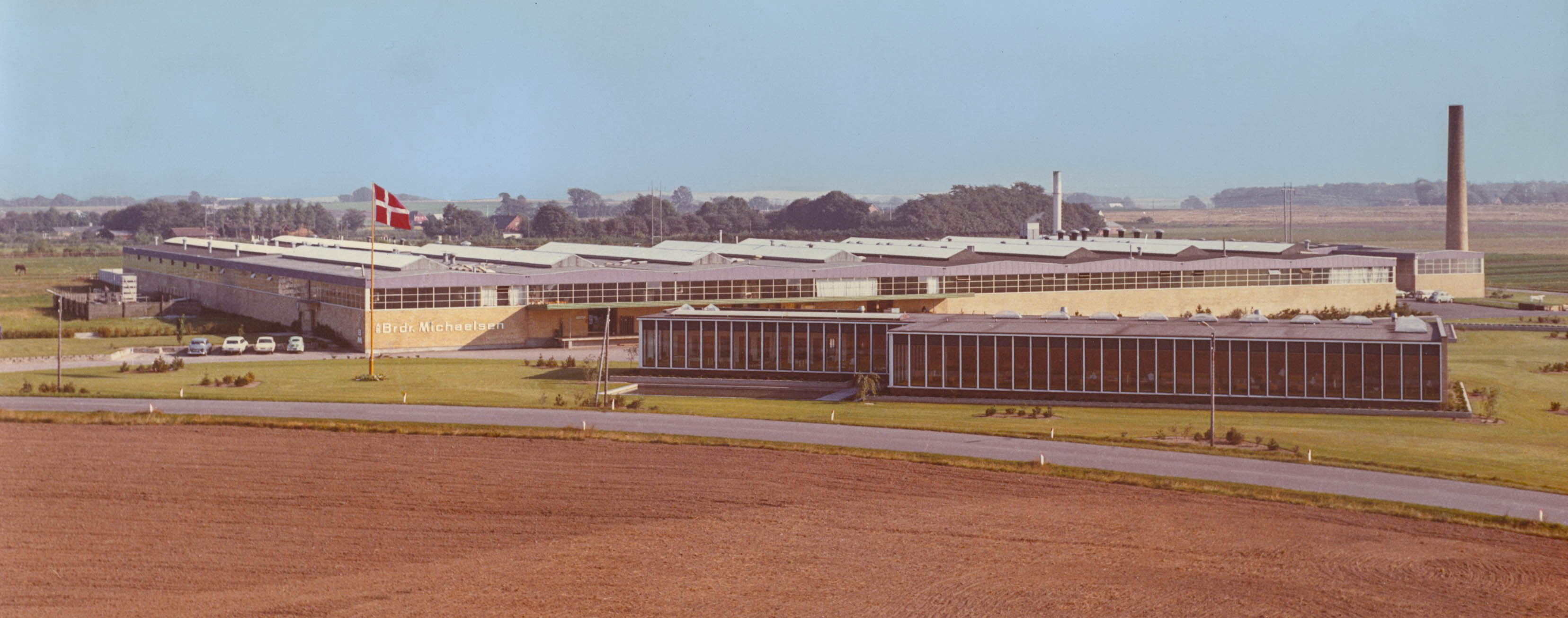 Brdr. Michaelsen machine company I Hedensted Denmark for 1968.